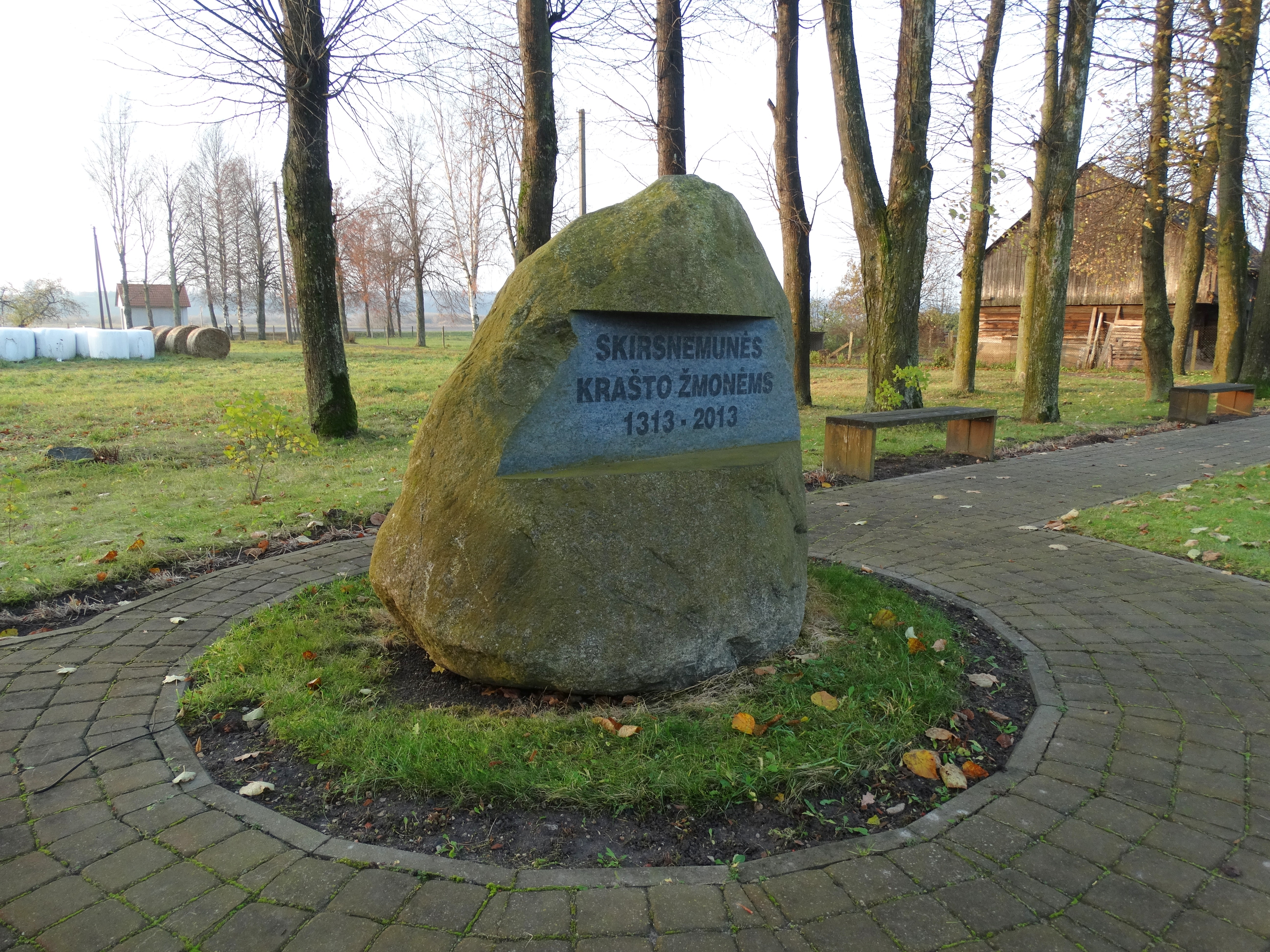 Skirsnemunė, Jurbarkas District. Lithuania